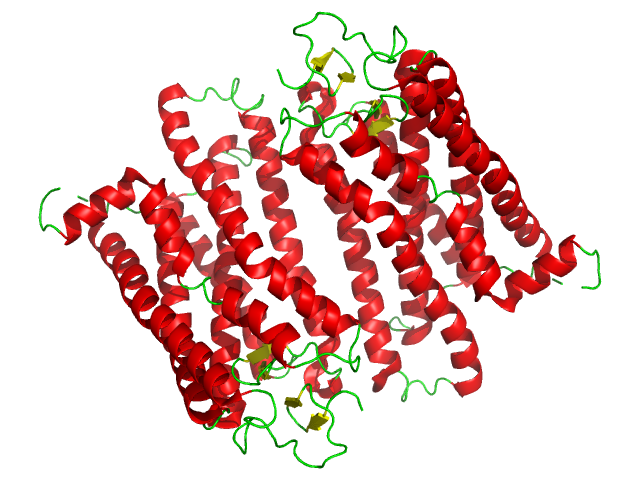 STRUCTURE OF BOVINE RHODOPSIN IN A TRIGONAL CRYSTAL FORM (PDB:1GZM)